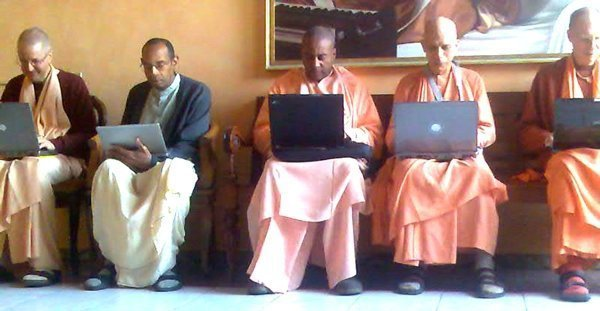 Photo of GBCs .